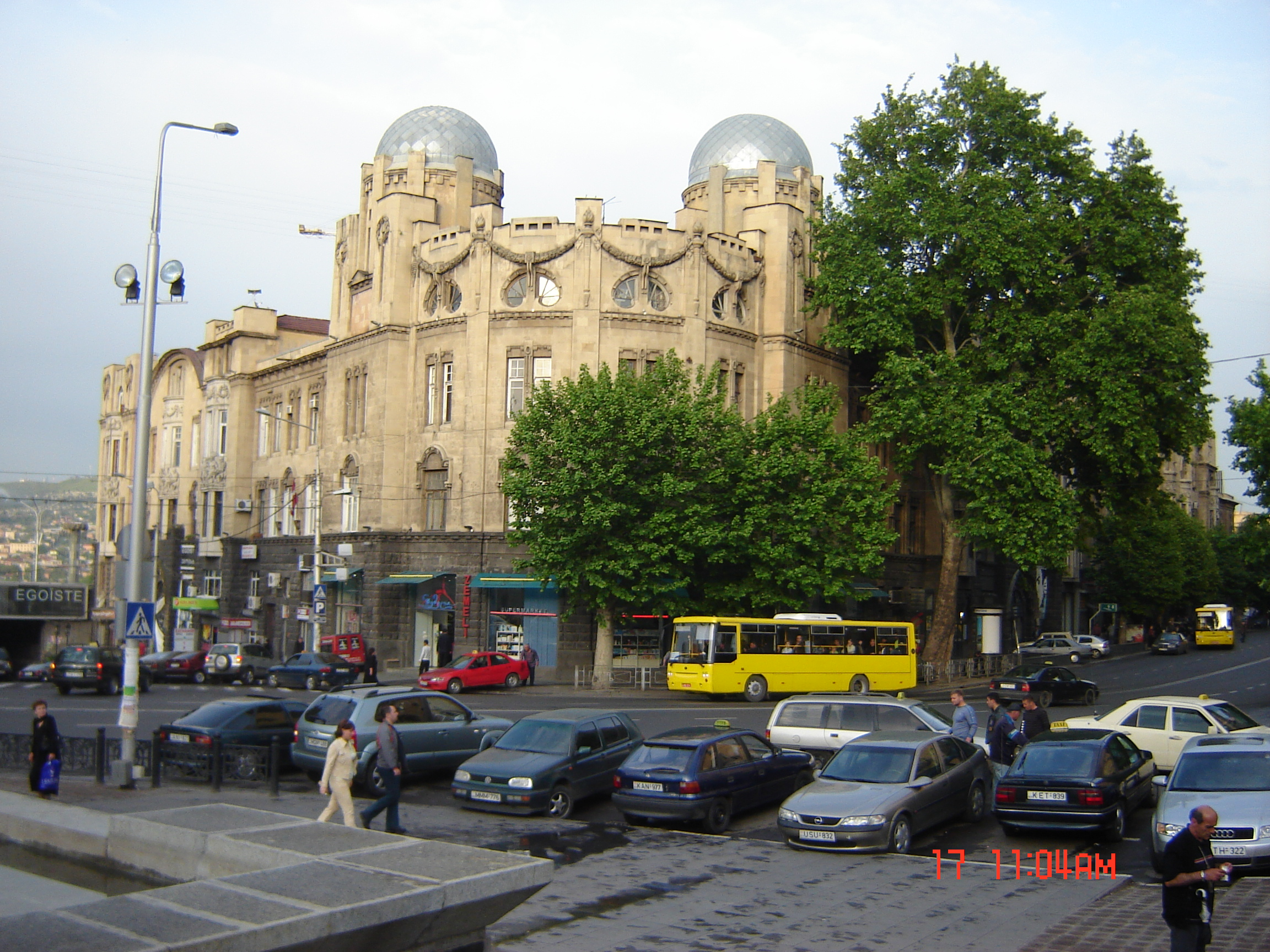 House of wealthy Armenian Melik-Azaryants in Tbilisi, Georgia (country)